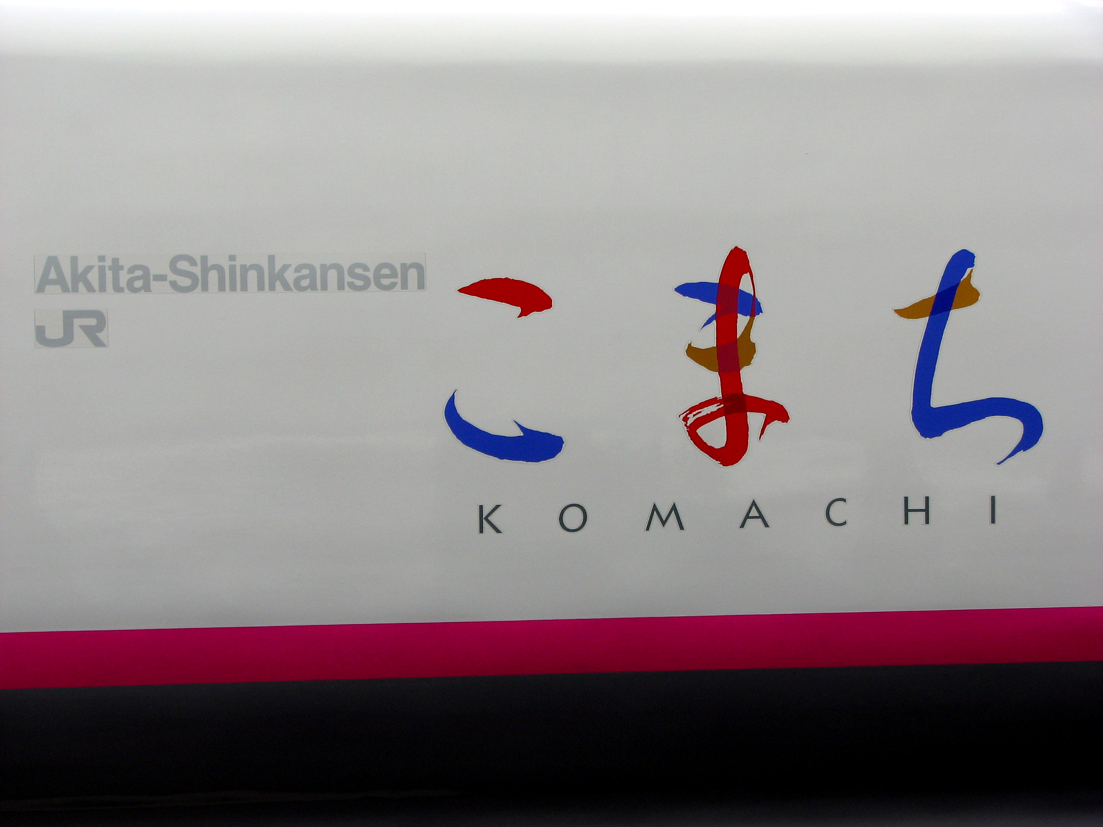 Body logo of Shinkansen E3 Series "Super Express Komachi"